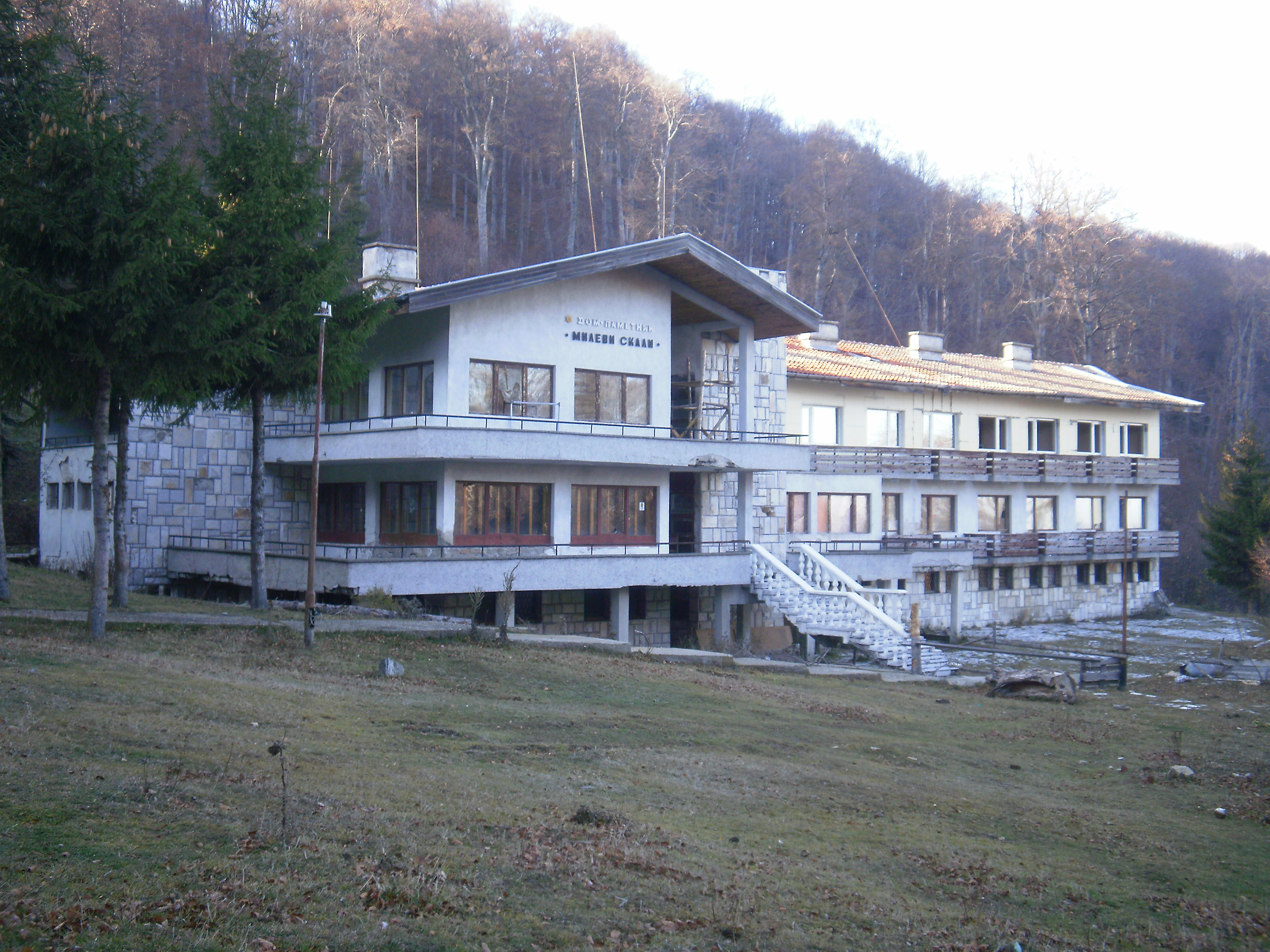 Mountain hut "Milevi skali" near Milevi skali Peak, Rhodope Mountains, Bulgaria.